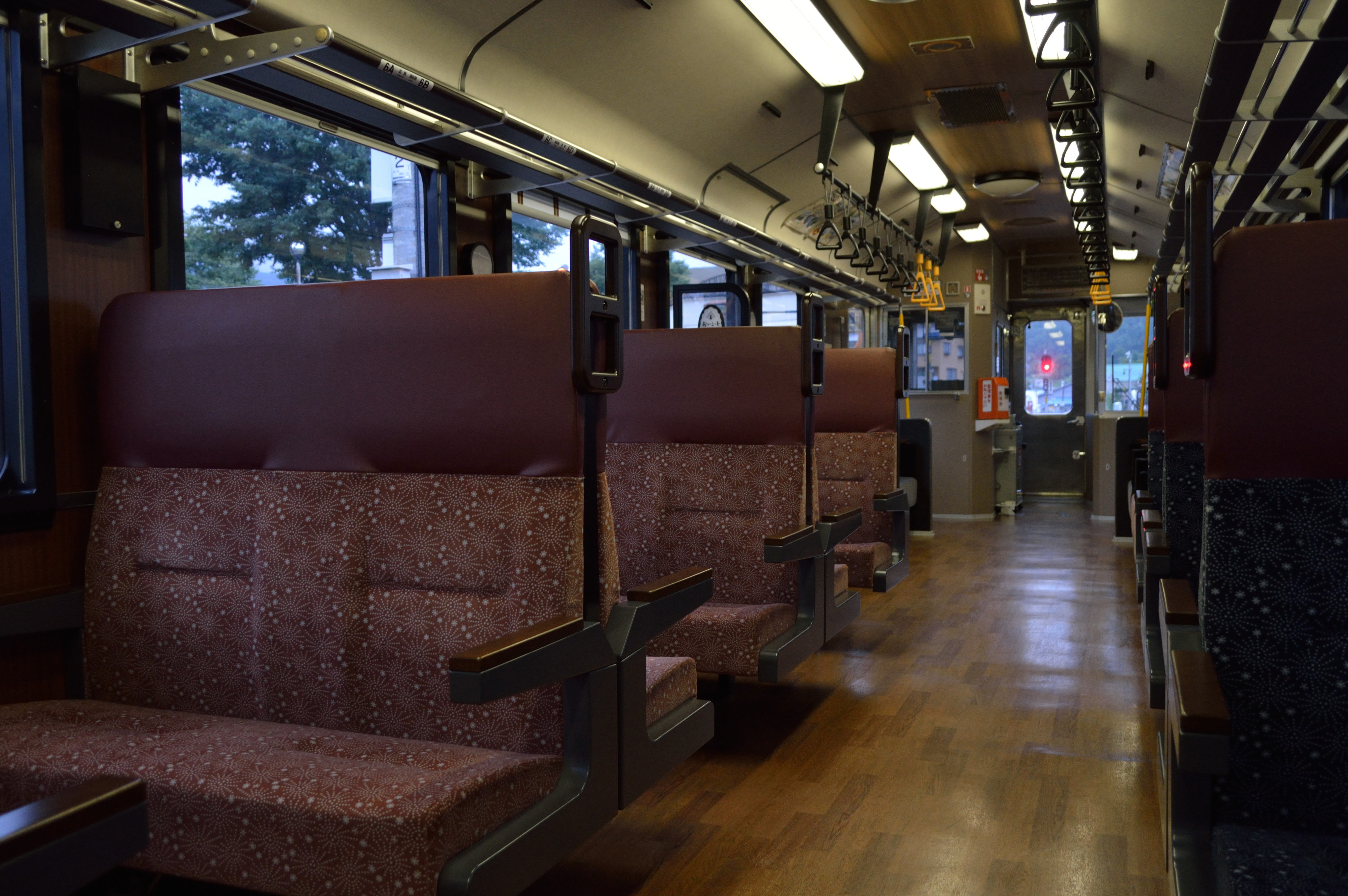 The interior of JR East KiHa 110 series DMU car KiHa 110-236 running as the Oykot tourist train